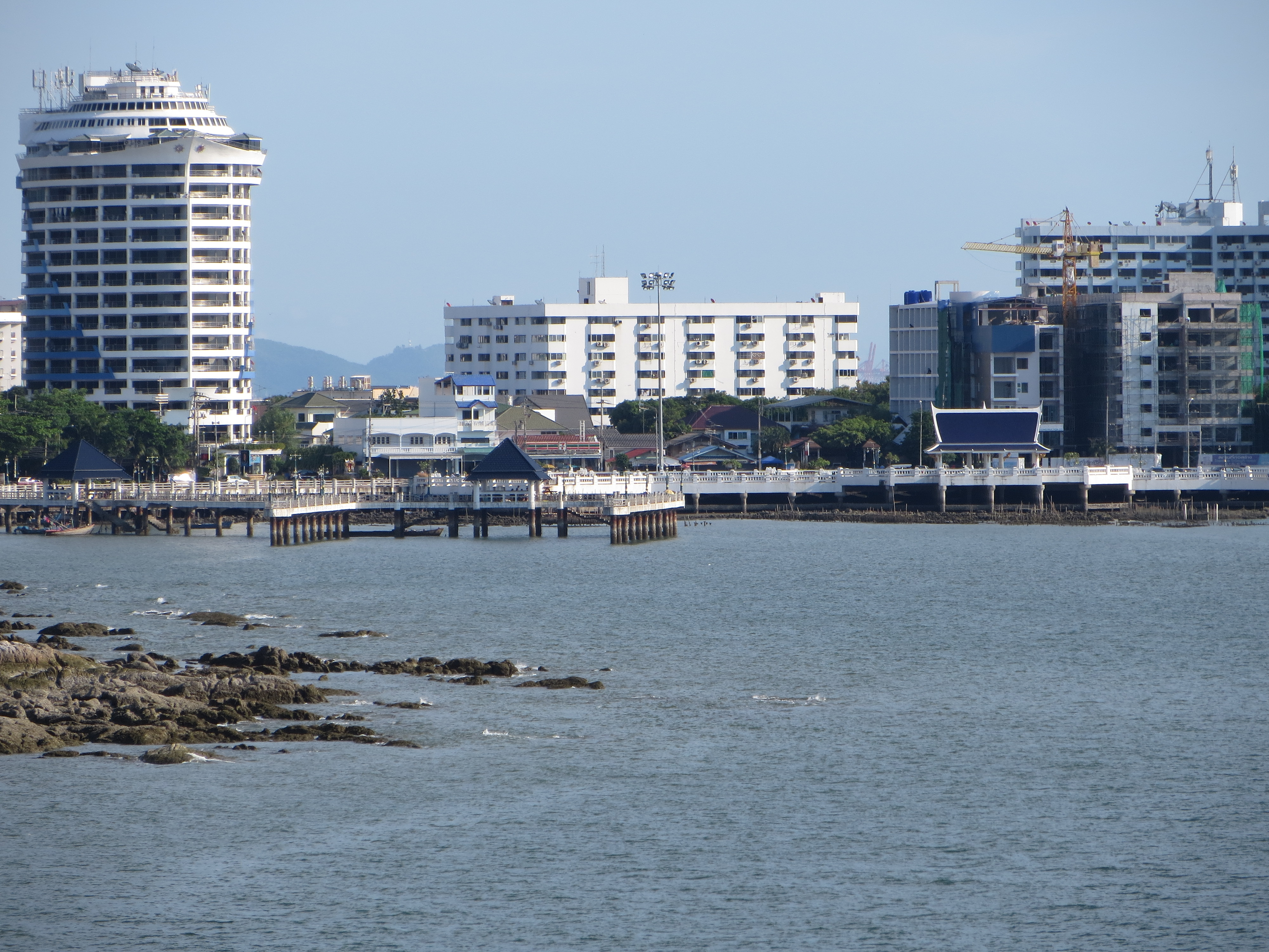 Bang Saen, Chonburi, Thailand